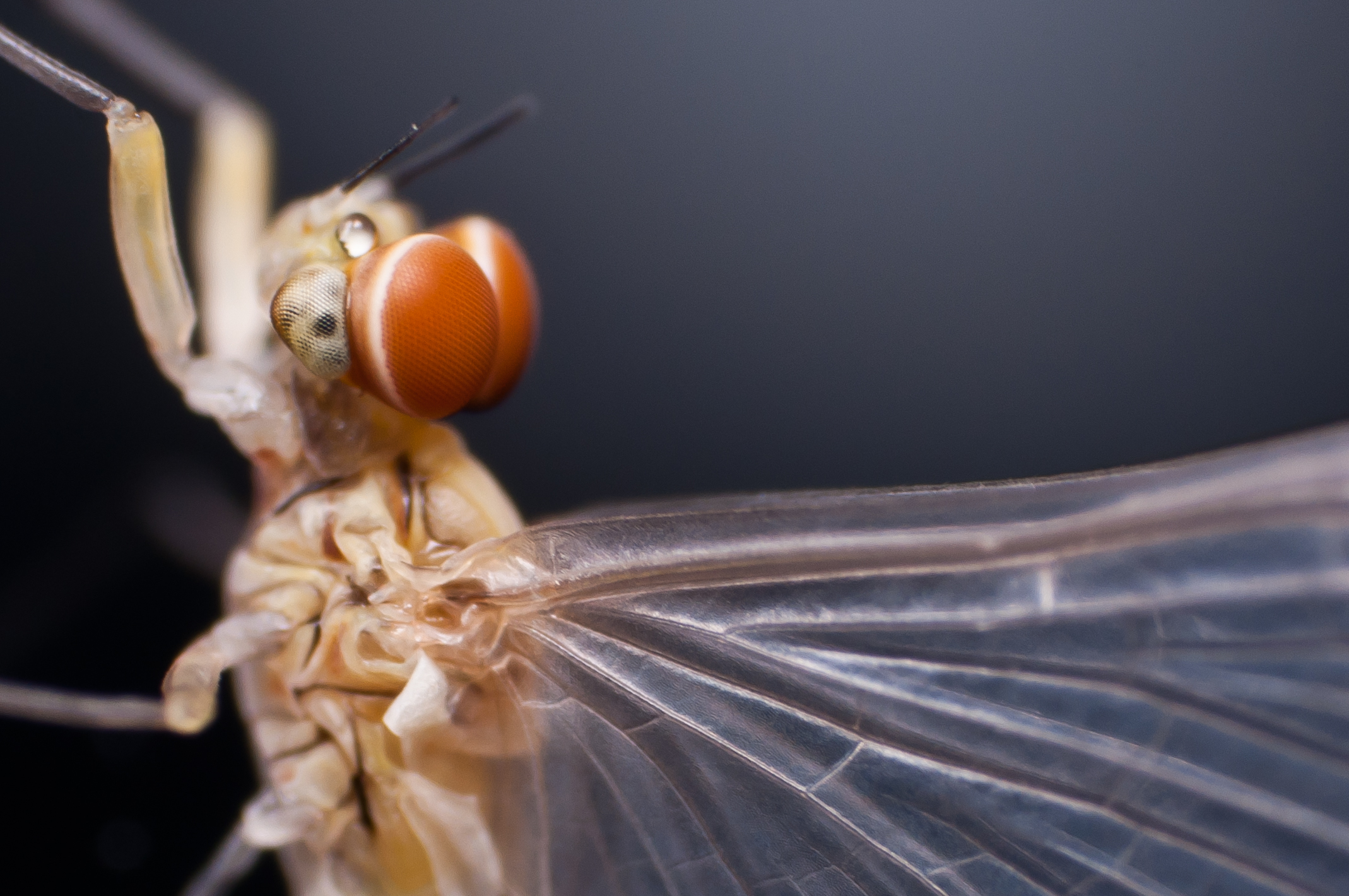 compound eyes of a mayfly subimago, Japan